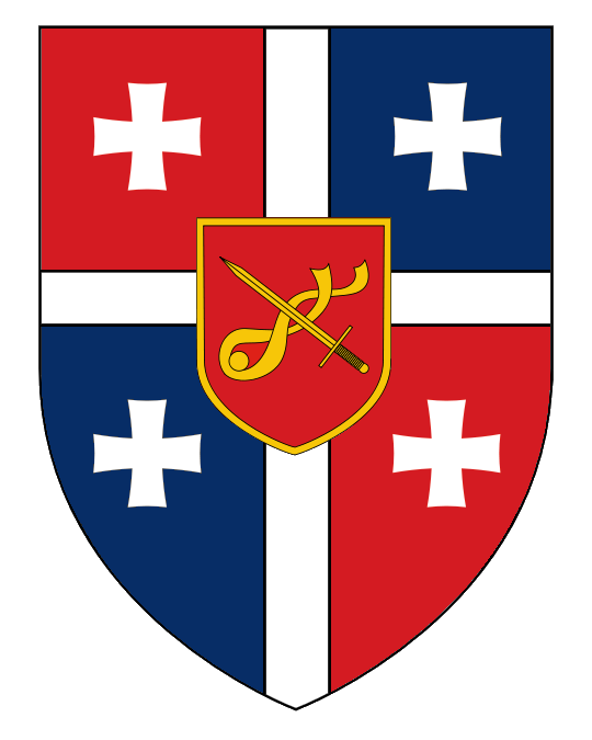 Insignia of the National Guard of Georgia